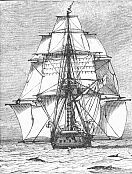 H.M.S. Beagle under full sail, view from astern.